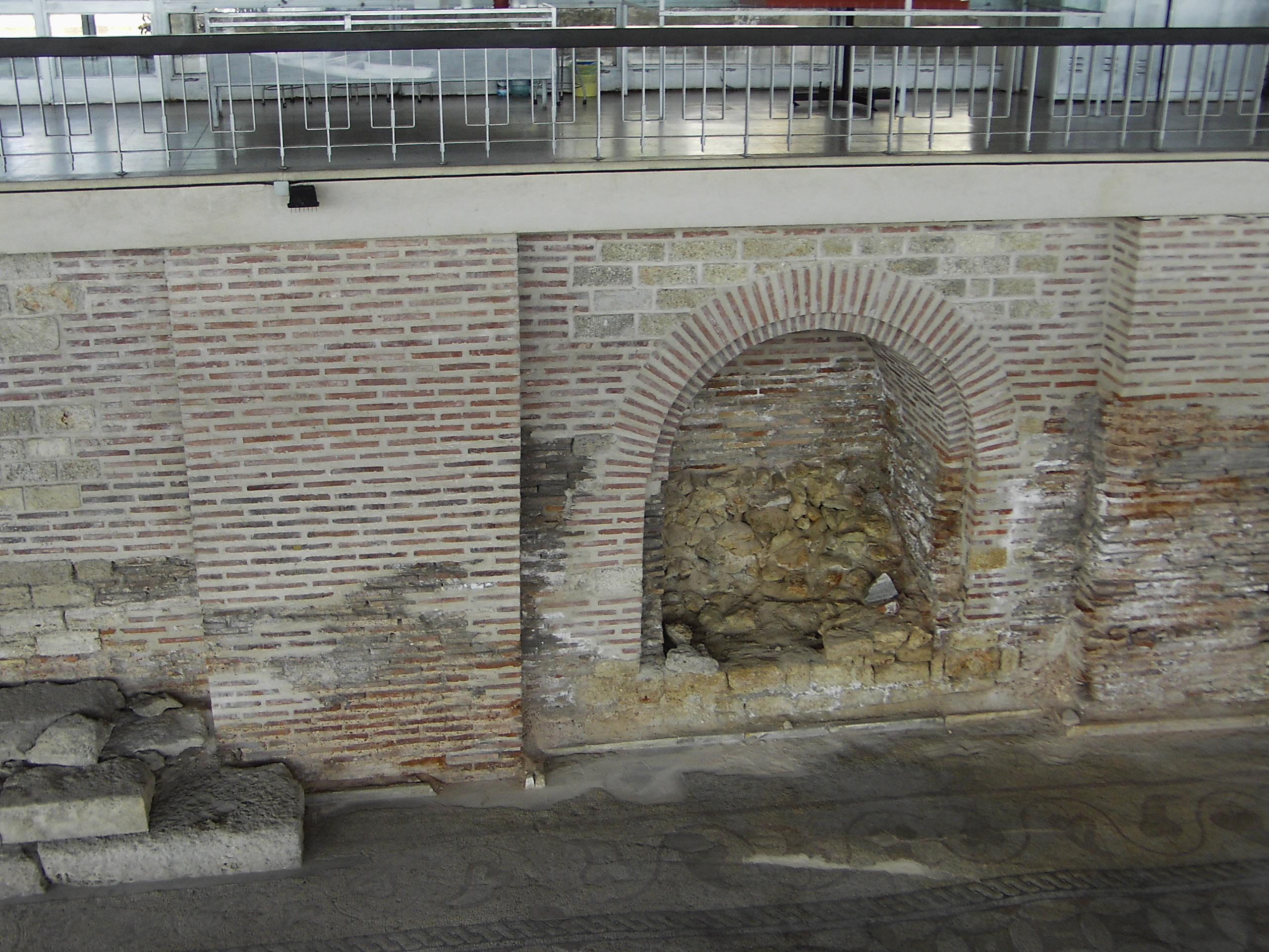 The Roman mosaic in Constanţa - the wall above the mosaic.